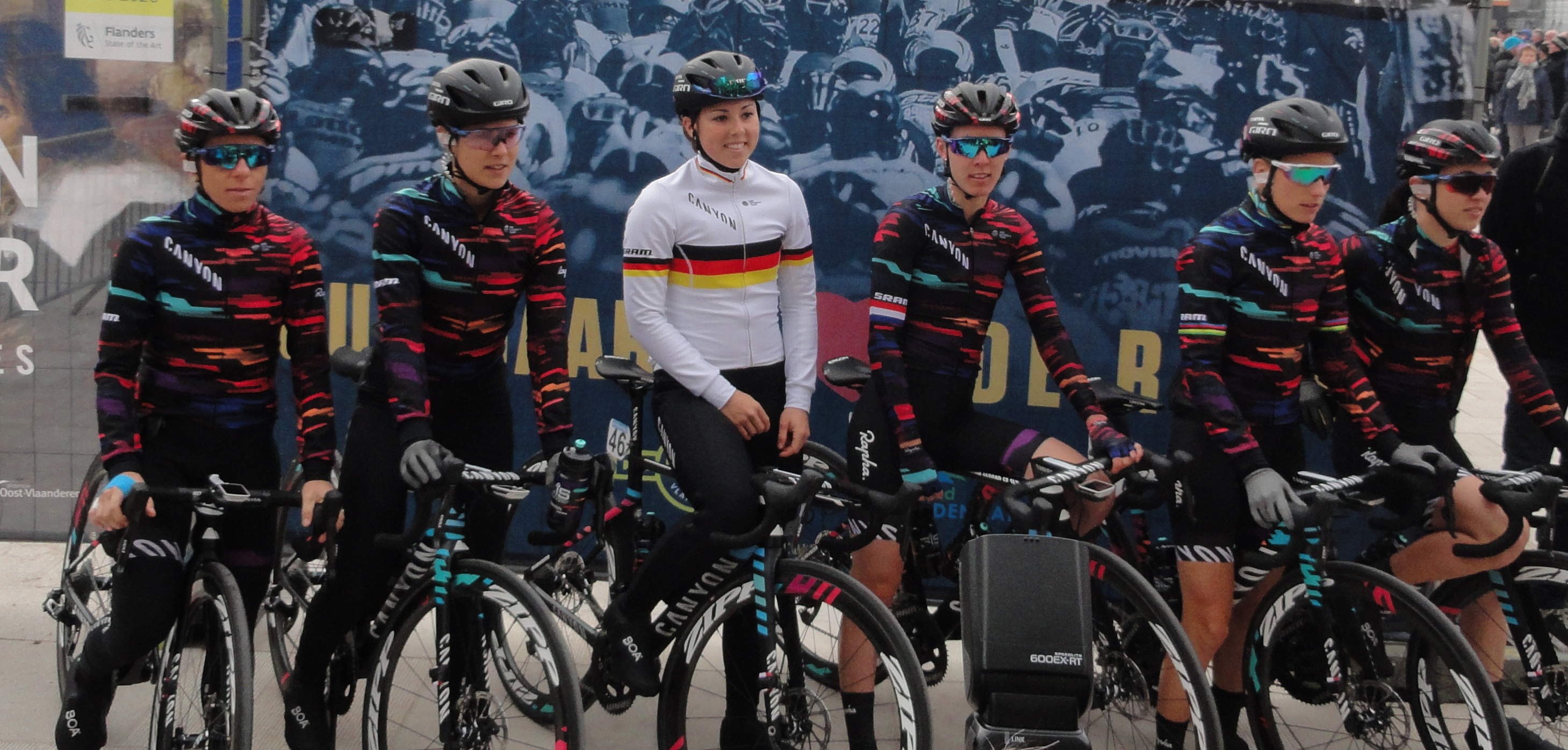 Team Canyon-SRAM Racing at start of RVV 2018.